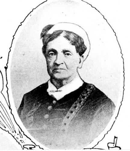 This is a photograph of Charlotte Allen (1805-1895), wife of Augustus Chapman Allen, who founded the city of Houston, Texas (USA). The photo was likely taken in the 1870s, when she was in her 60s